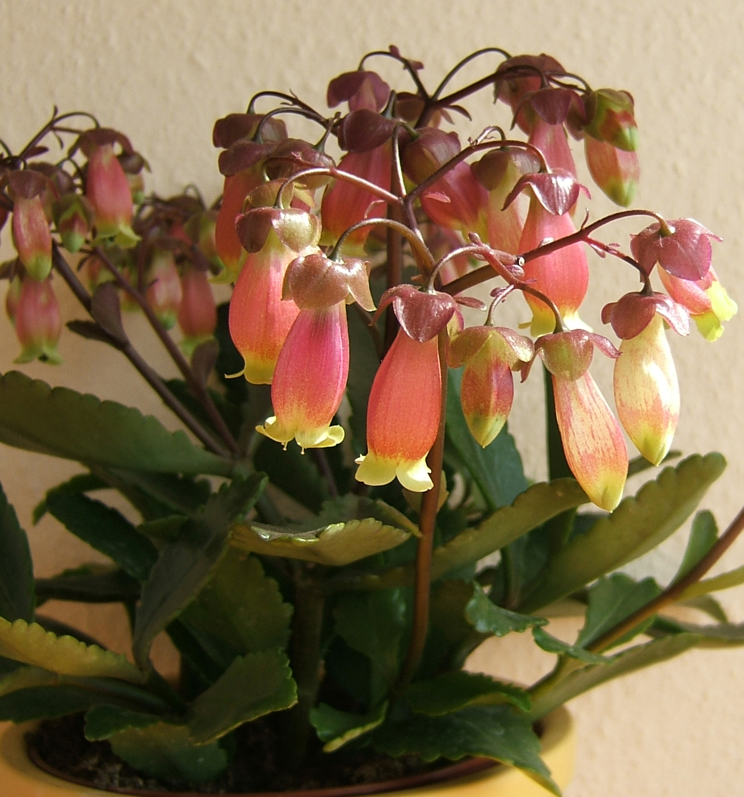 Kalanchoe miniata Hils. & Bojer ex Tul. Synonyms: Bryophyllum miniatum (Hils. & Bojer ex Tul.) A.Berger; Kalanchoe subpeltata Baker; Kitchingia miniata (Hils. & Bojer ex Tul.) Baker